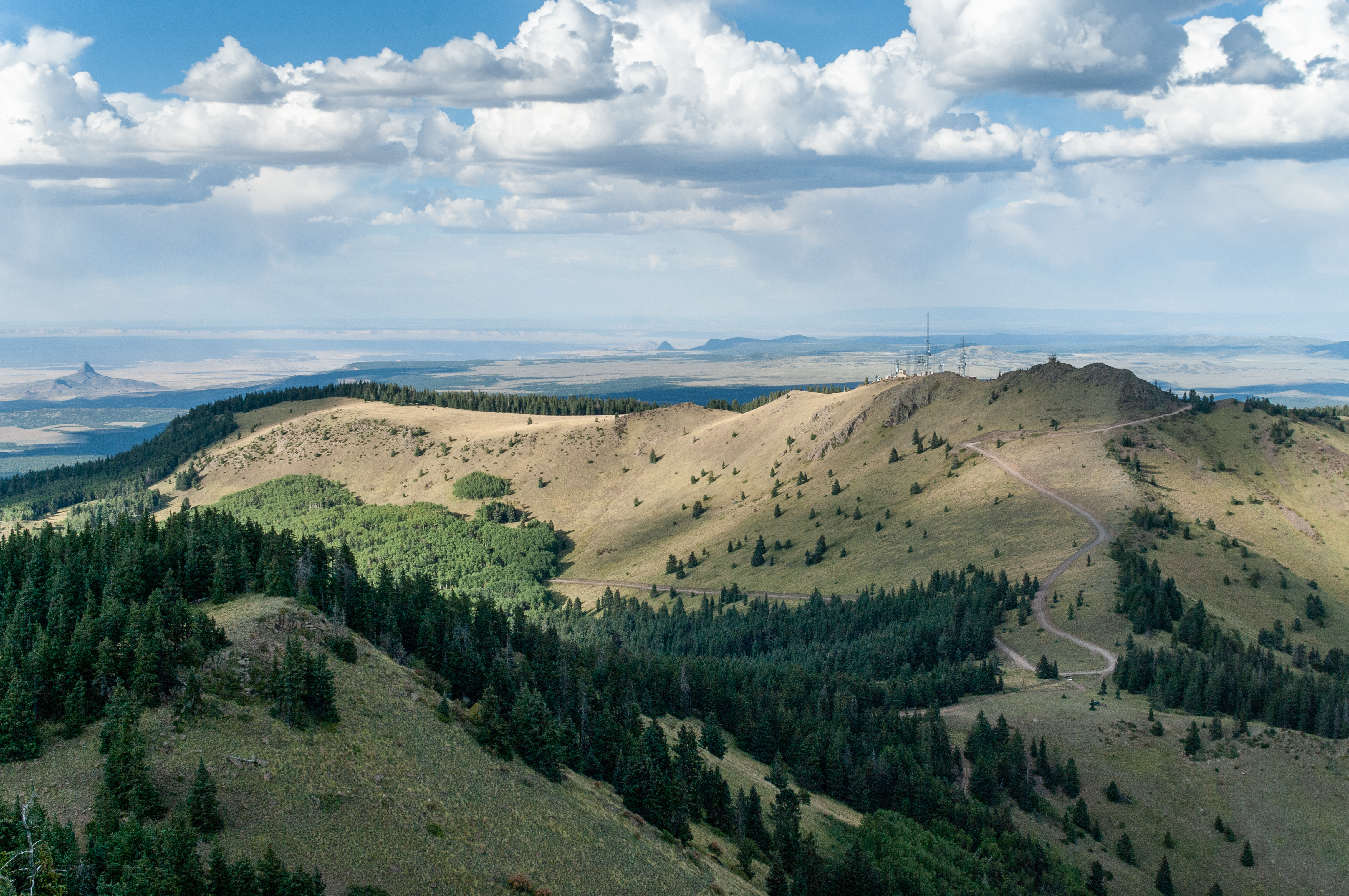 Looking north-northeast towards La Mosca Lookout from near the summit of Mount Taylor, New Mexico